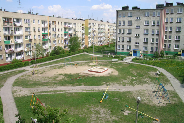 Condominiums within Skalska district in Wolbrom, Poland